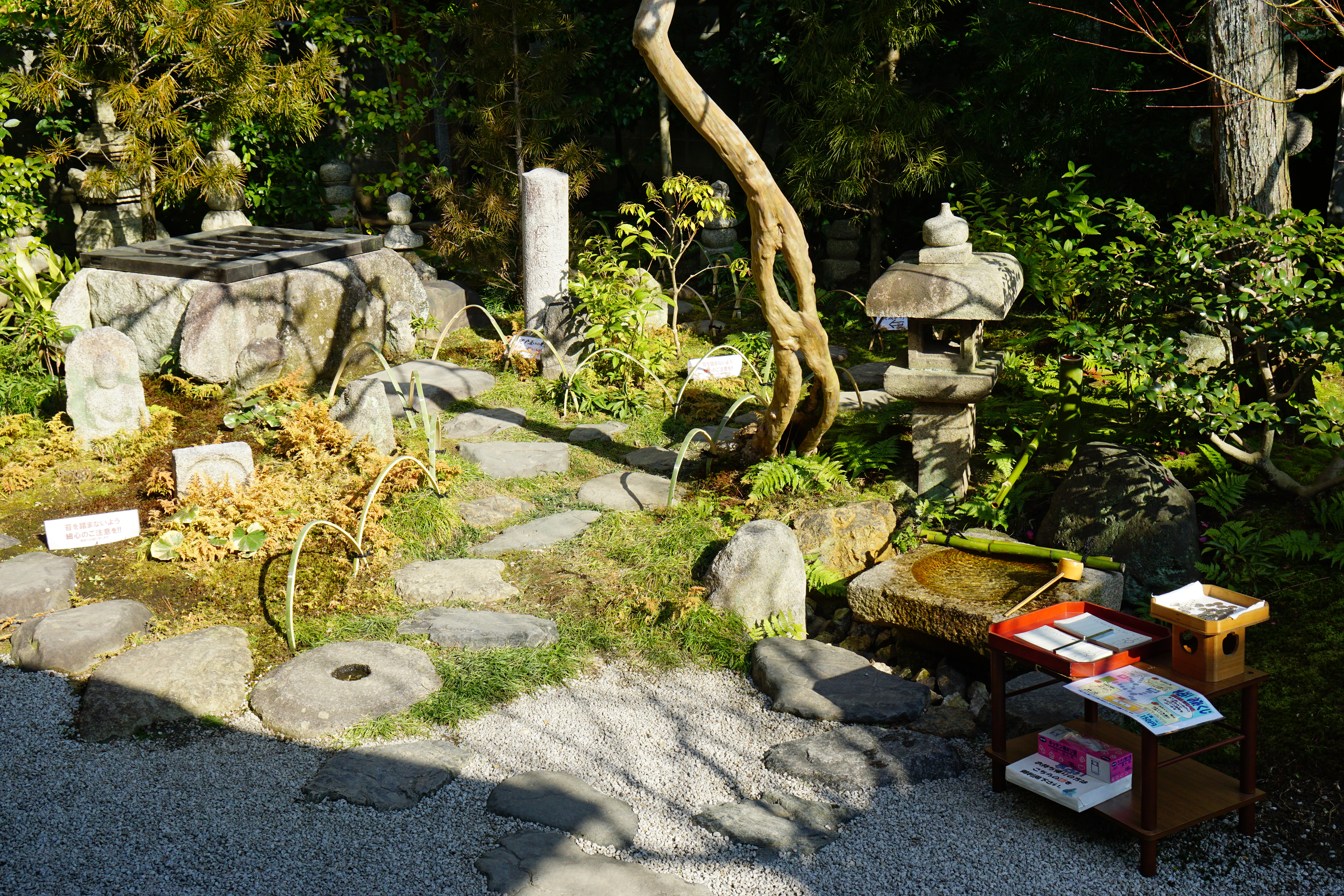 Rokudo Chinno-ji, Higashiyama-ku, Kyoto, Kyoto prefecture, Japan.